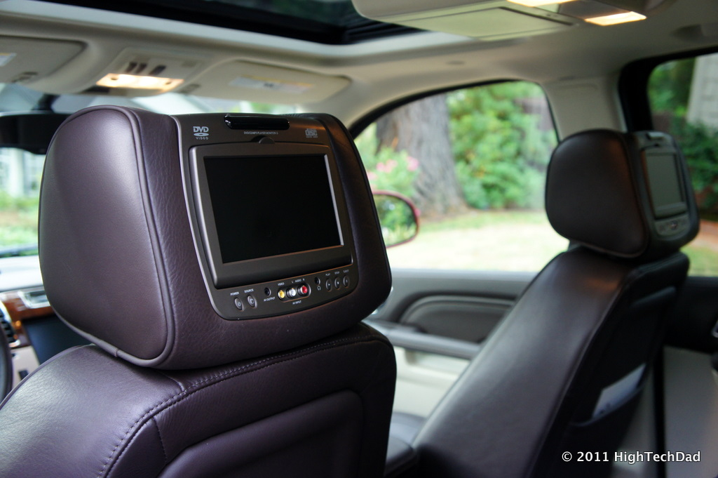 Pictures from a 7-day test drive of the 2011 Cadillac Escalade ESV Platinum Edition. More details and a video can be found at